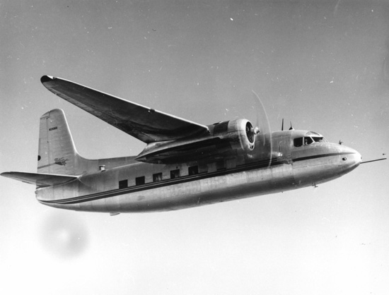 Lockheed L-75 Saturn